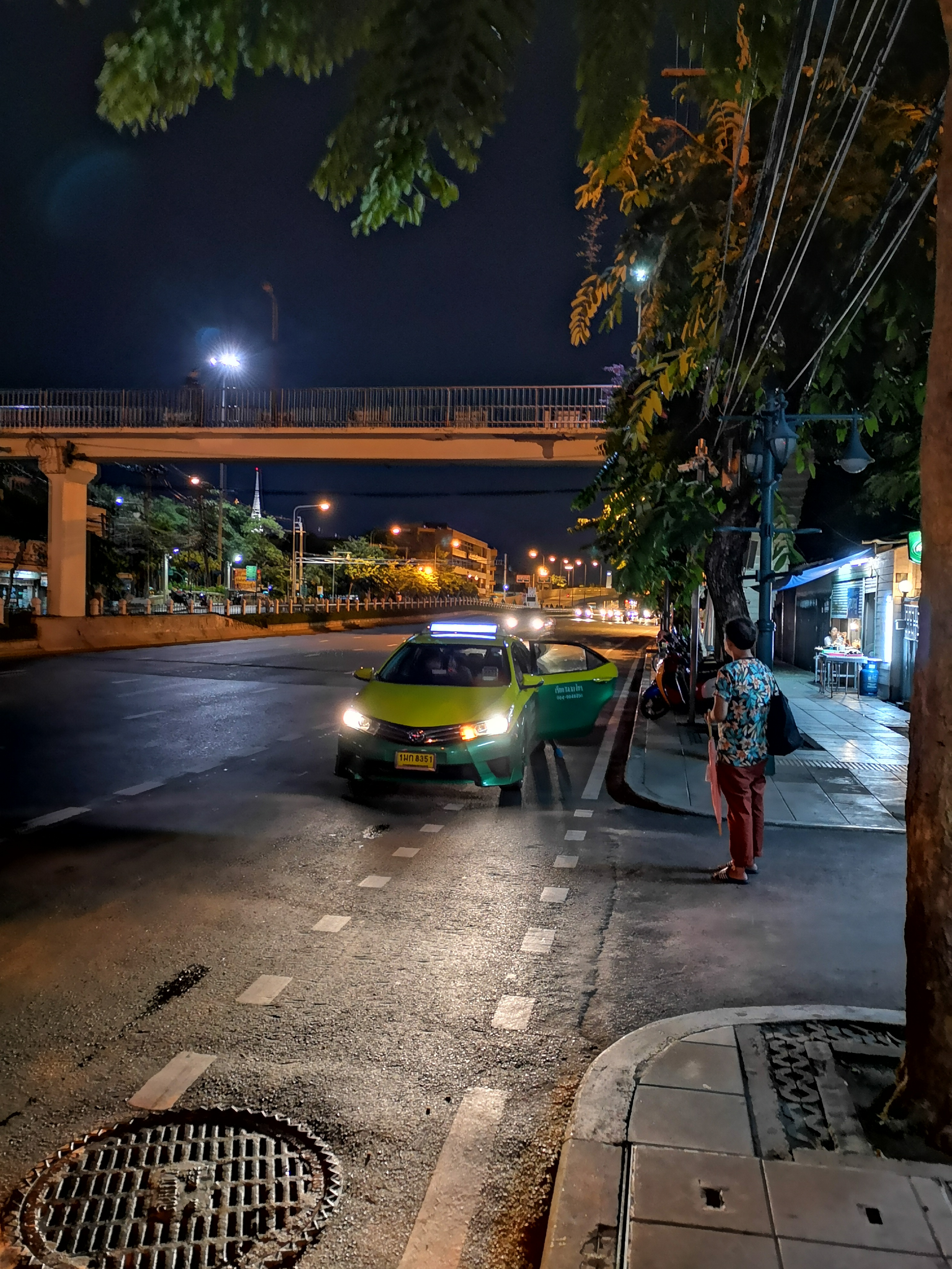 Thanon Prajadhipok